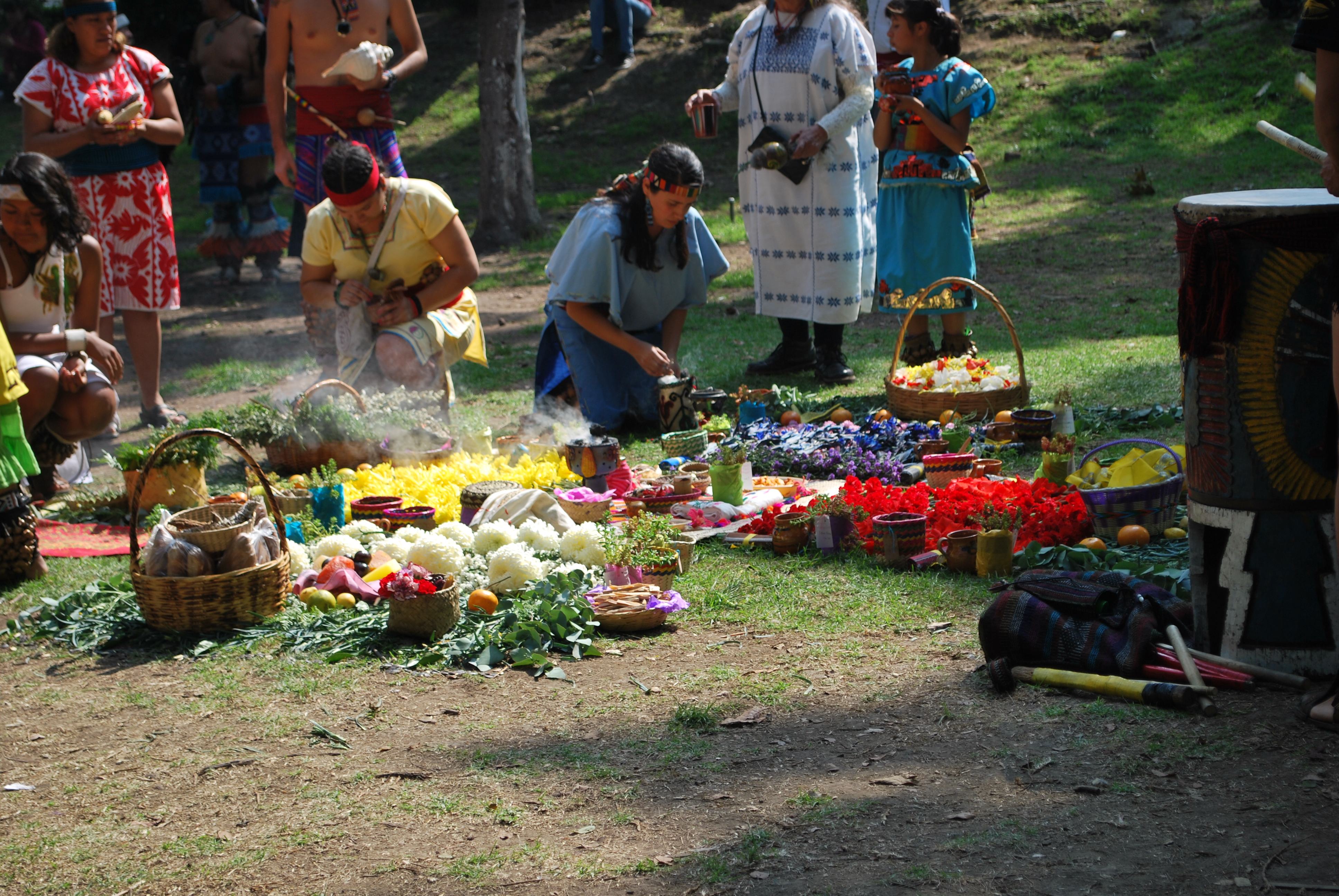 Aztec dance/ritual at Juana de Asbaje Park in Tlalpan, Mexico City